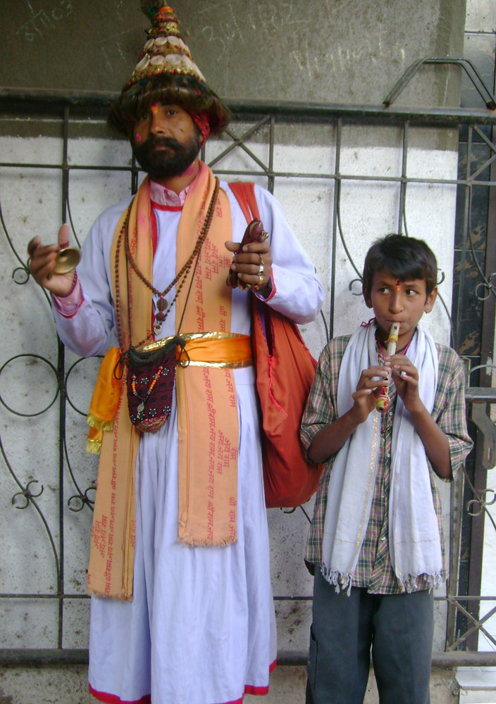 A photo of 'Vasudev' (belonging to one of the Marathi folk artists' categories) and his son from Pune, Maharashtra.